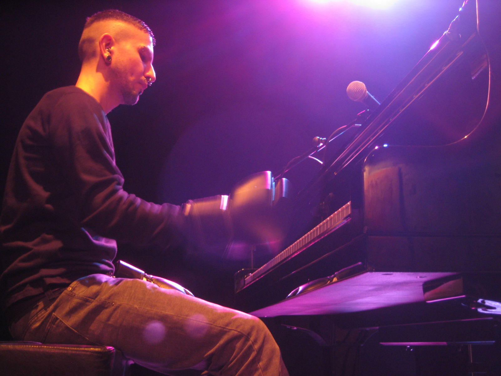 Depicted person: Othon Mataragas – Greek musician